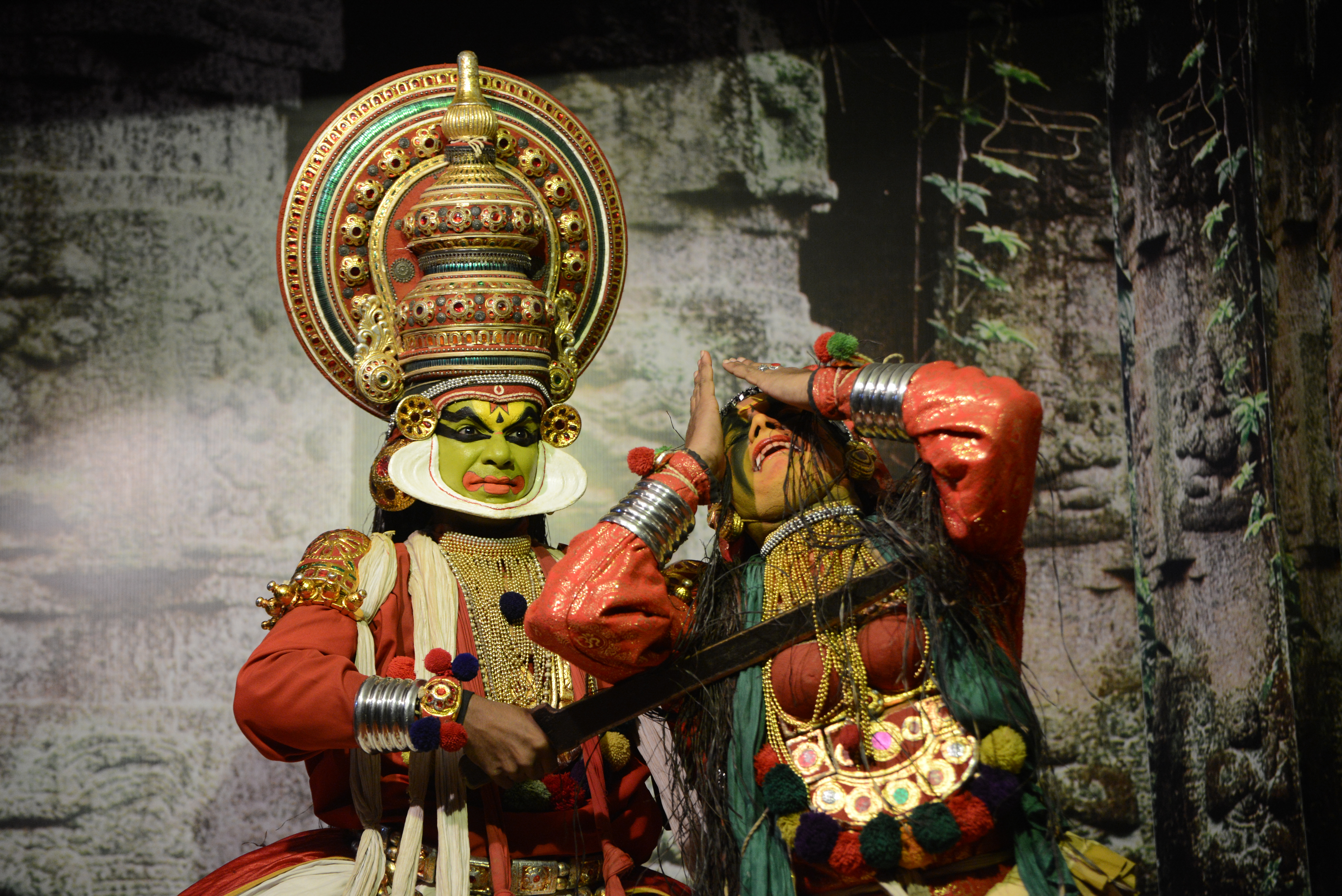 It is a "story play" genre of art, but one distinguished by the elaborately colorful make-up, costumes and face masks that the traditionally male actor-dancers wear. Kathakali is a Hindu performance art in the Malayalam-speaking southwestern region of India (Kerala).